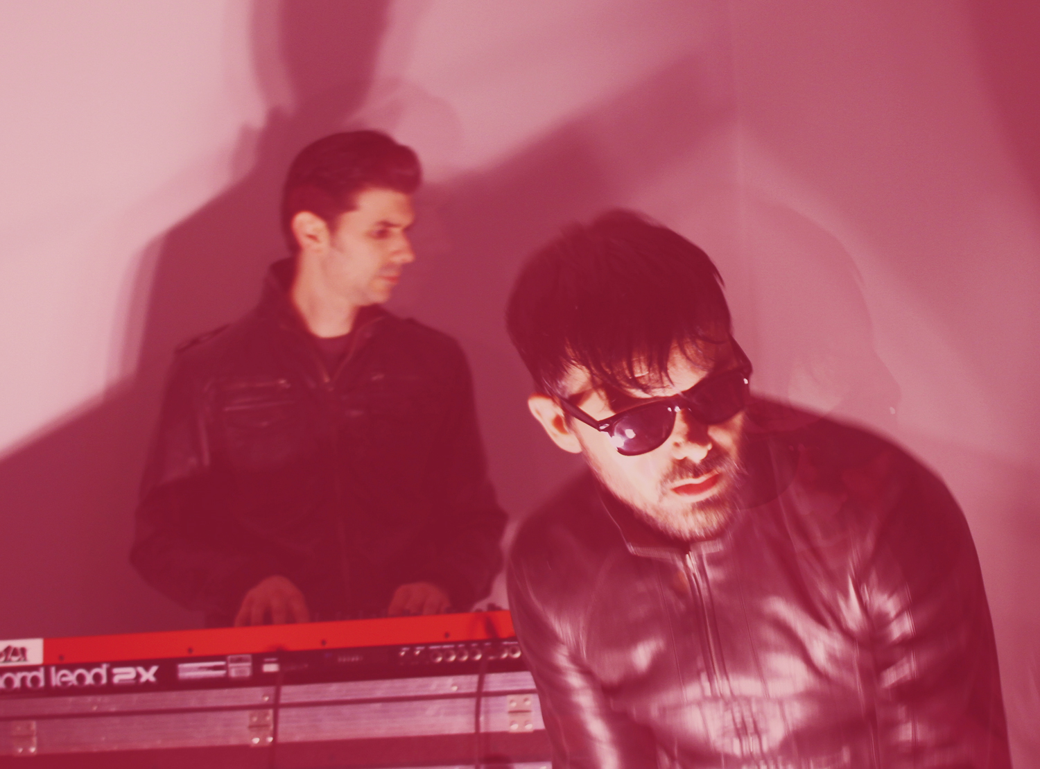 Miguel Gardo and Fate Fatal of Million Machines playing a live show in Downtown Los Angeles on July 4th, 2014